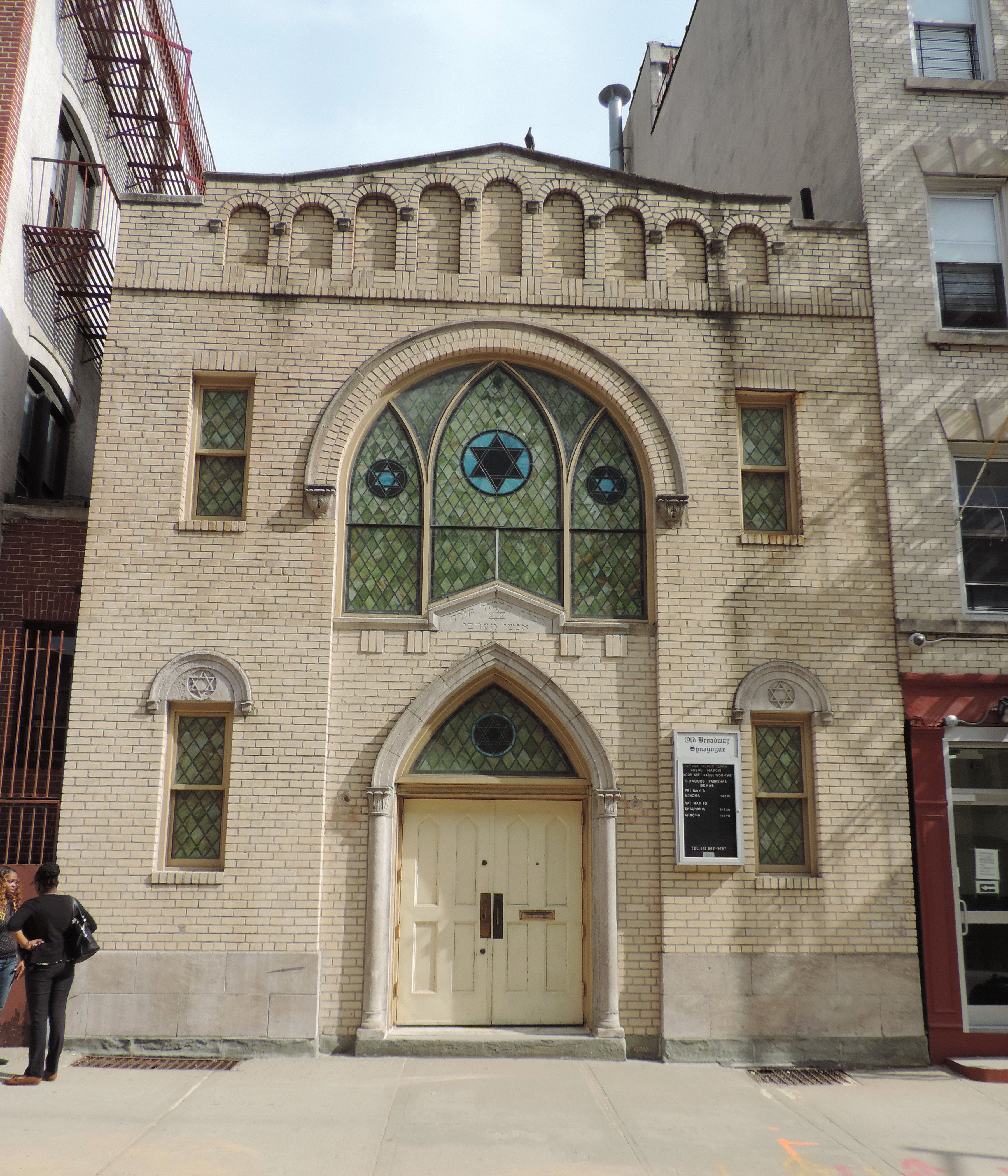 Looking southeast at synagogue on a mostly sunny Wednesday afternoon.